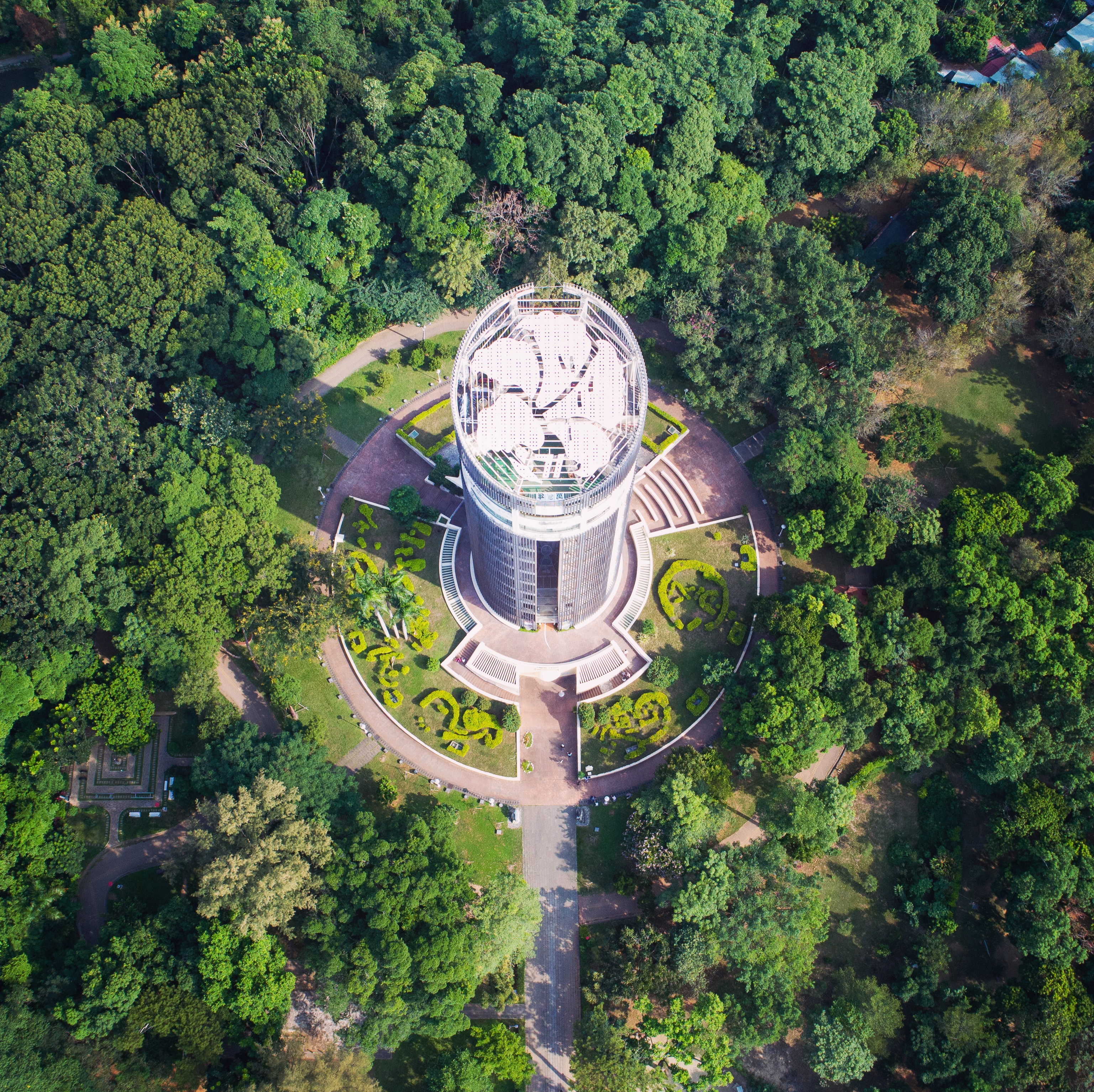 中文（台灣）: 嘉義射日塔 ( Chiayi Tower )